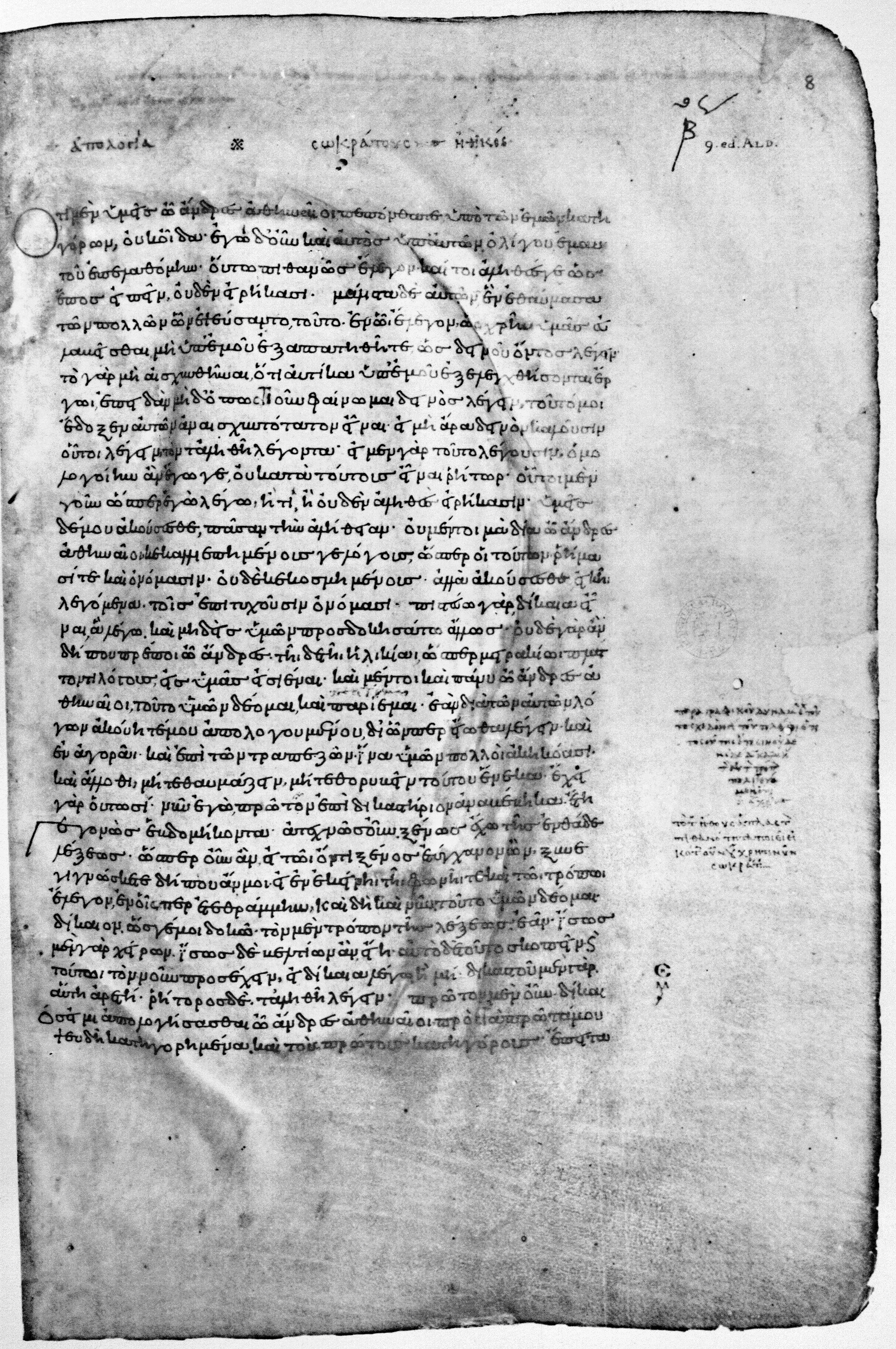 Page of the Codex Oxoniensis Clarkianus 39 (Clarke Plato). Dialogue Apologia.